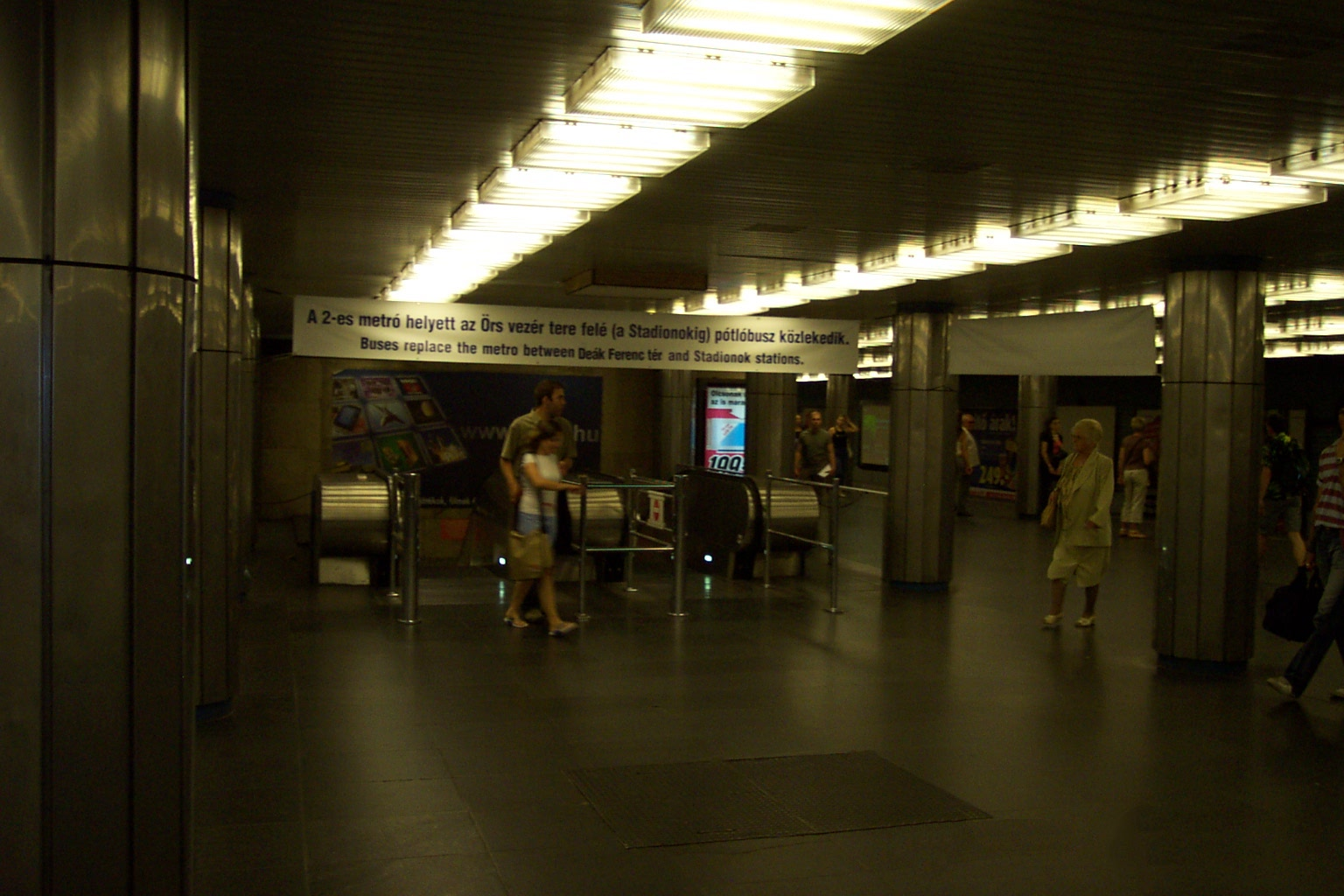 The Budapest Metro station "Deák Ferenc tér" (Line M3)